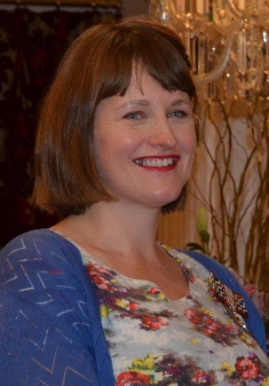 Coralie Winn, after being presented with the Queen's Service Medal, for services to the arts, at Government House, Wellington, on 21 May 2015.